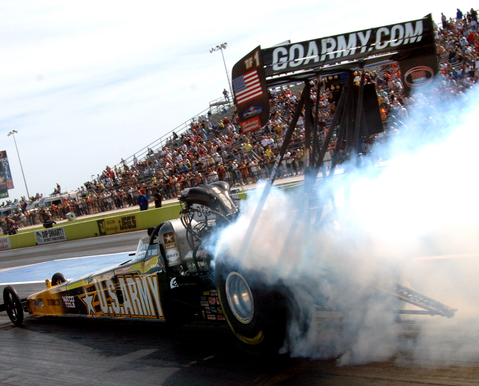 U.S. Army Top Fuel pilot, Tony "The Sarge" Schumacher, moved closer to the Top Fuel world championship title in the semifinals of the O'Reilly Fall Nationals at the Texas Motorplex in Ennis, Sept. 24. This photo appeared on ID: CSA-2006-09-26-090353